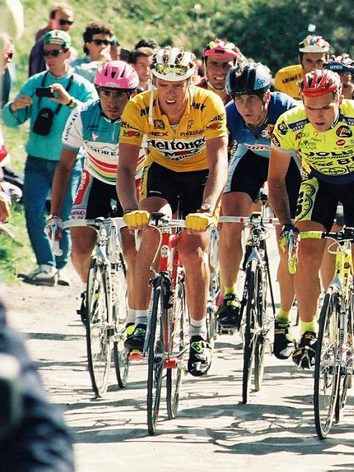 Riders in the 1991 Giro d'Italia climbing Sestriere on stage 13, Savigliano-Sestriere, 192 km. Included in the group are Mario Cipollini, Greg LeMond, Laurent Fignon and Franco Ballerini.